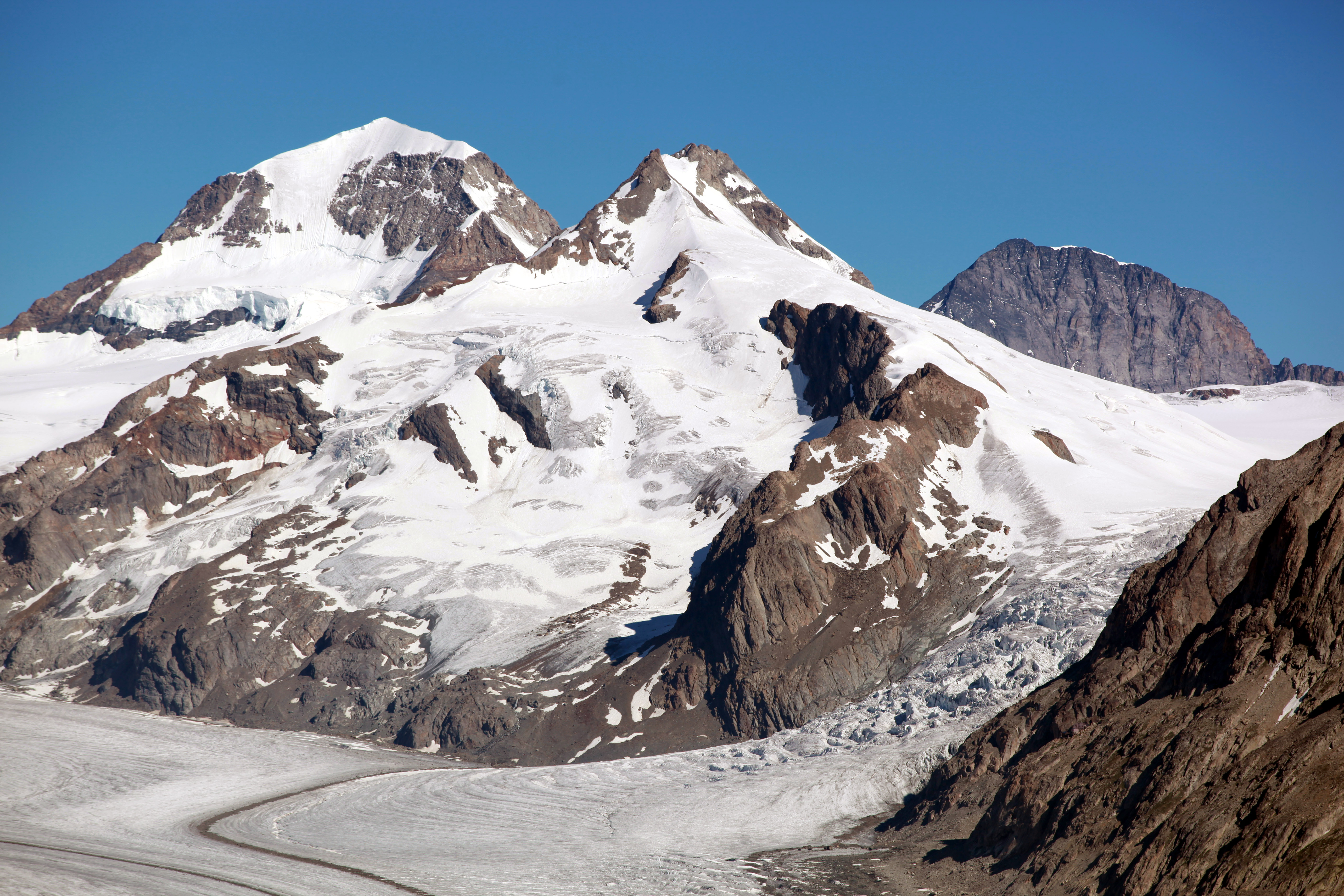 The mountain Trugberg, 3,933 m in the Bernese Alps